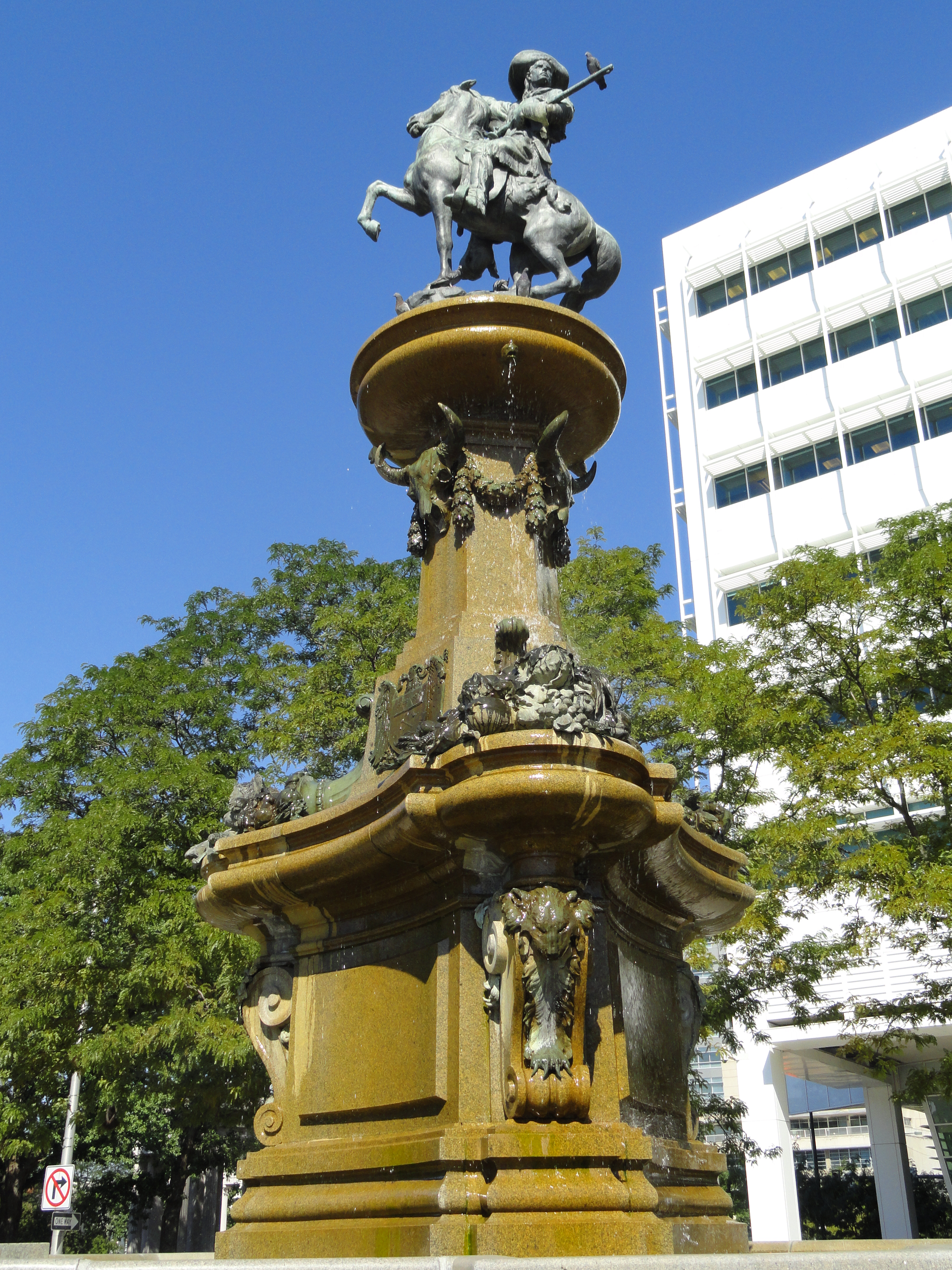 Pioneer Monument, Civic Center Park, Denver, Colorado, USA. Created by Frederick William MacMonnies in 1919; it is now in the public domain.